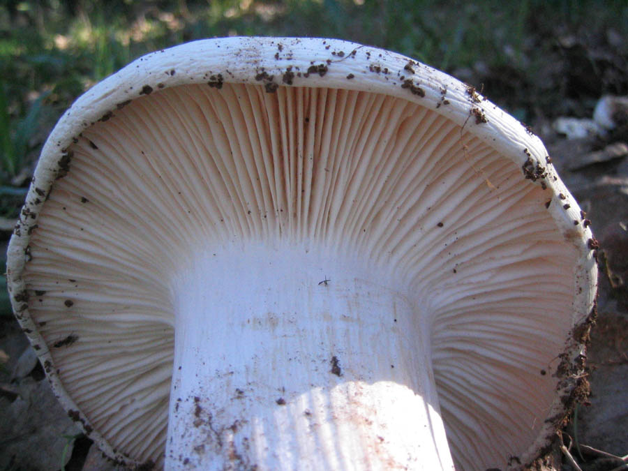 Leucopaxillus albissimus. Howarth Park, Santa Rosa, California, USA